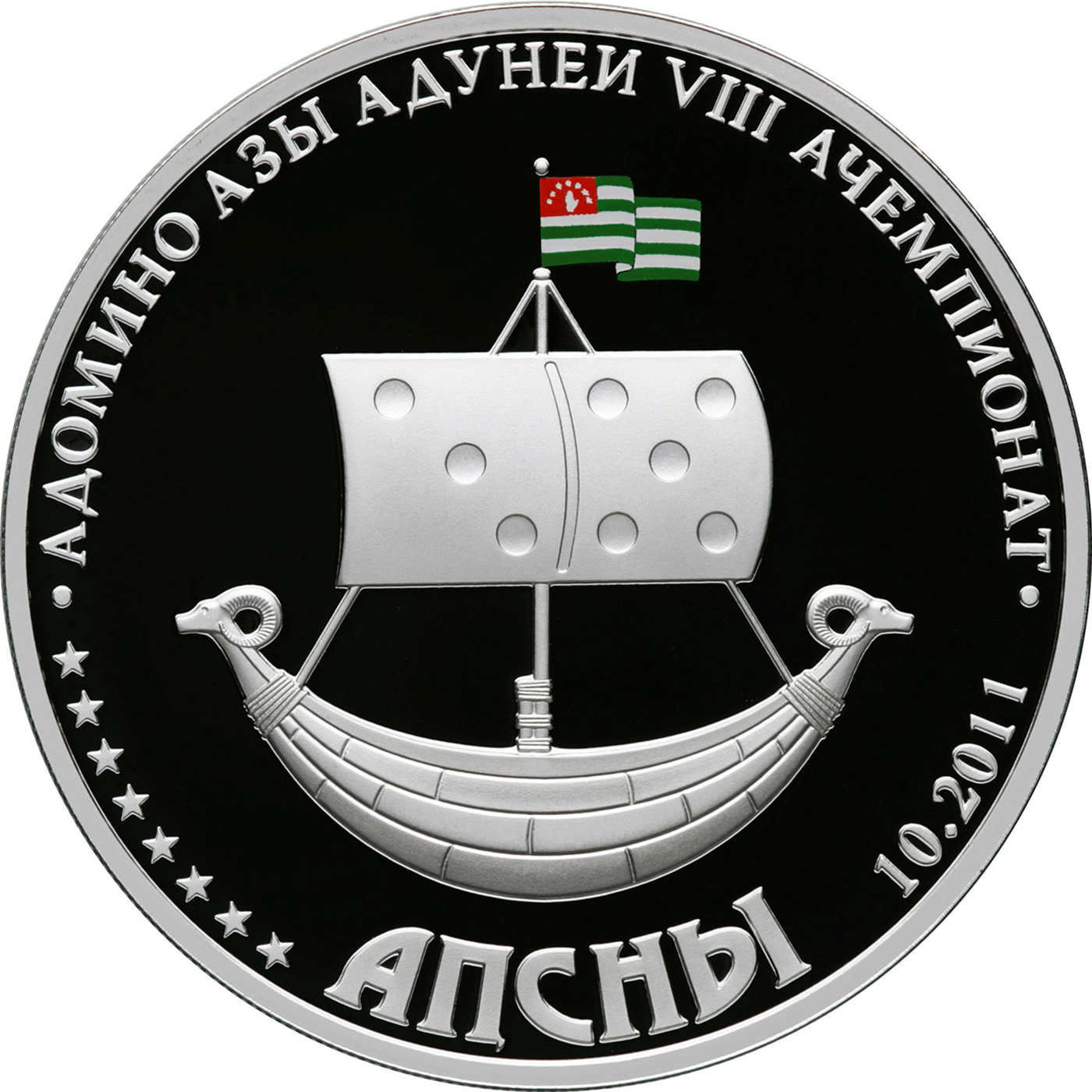 Coin «World Domino Championship Abkhazia 2011», 10 apsars, 2011, Ag925, reverse